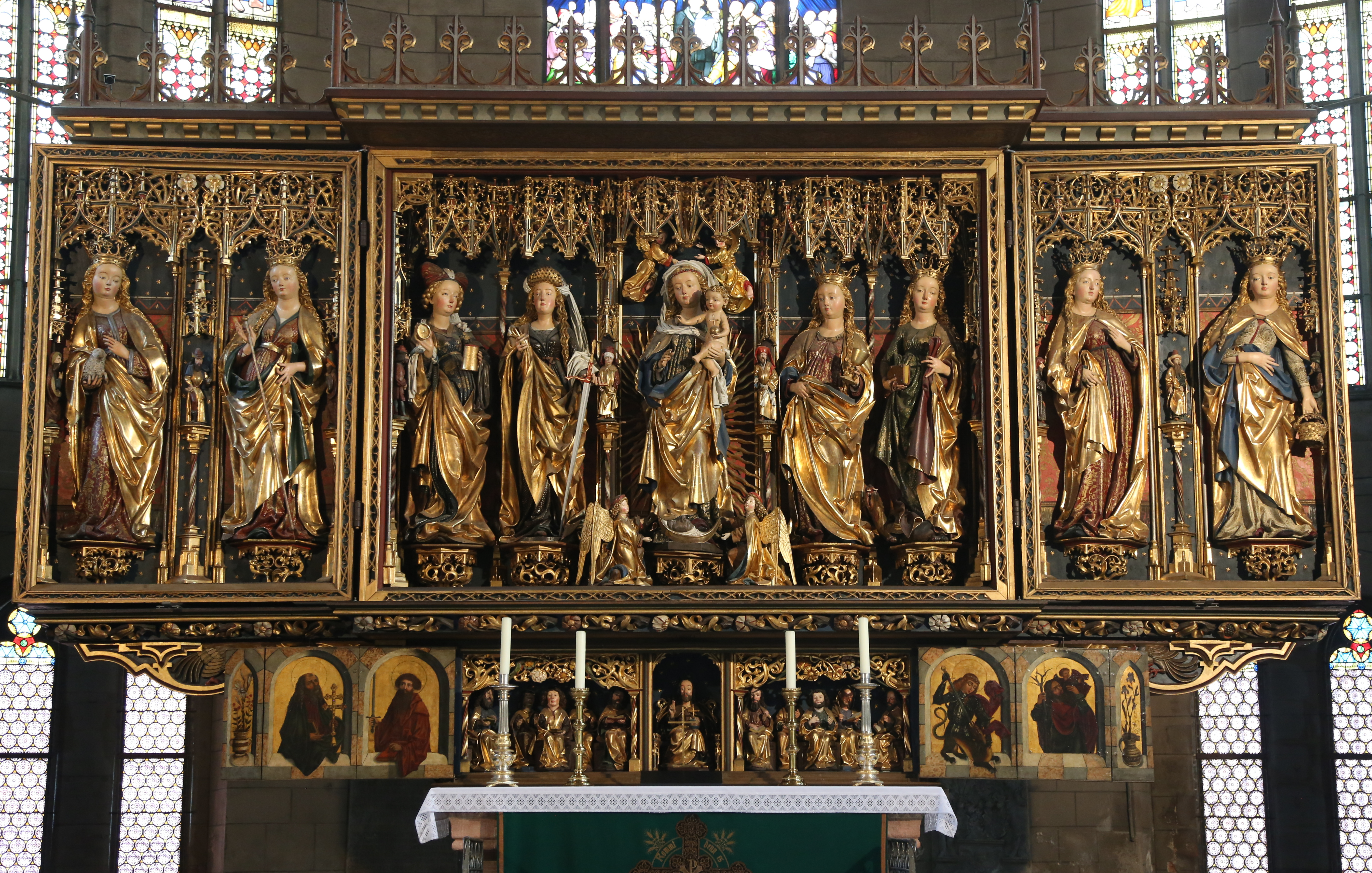 The altar in the Marienkirche in Zwickau, Germany